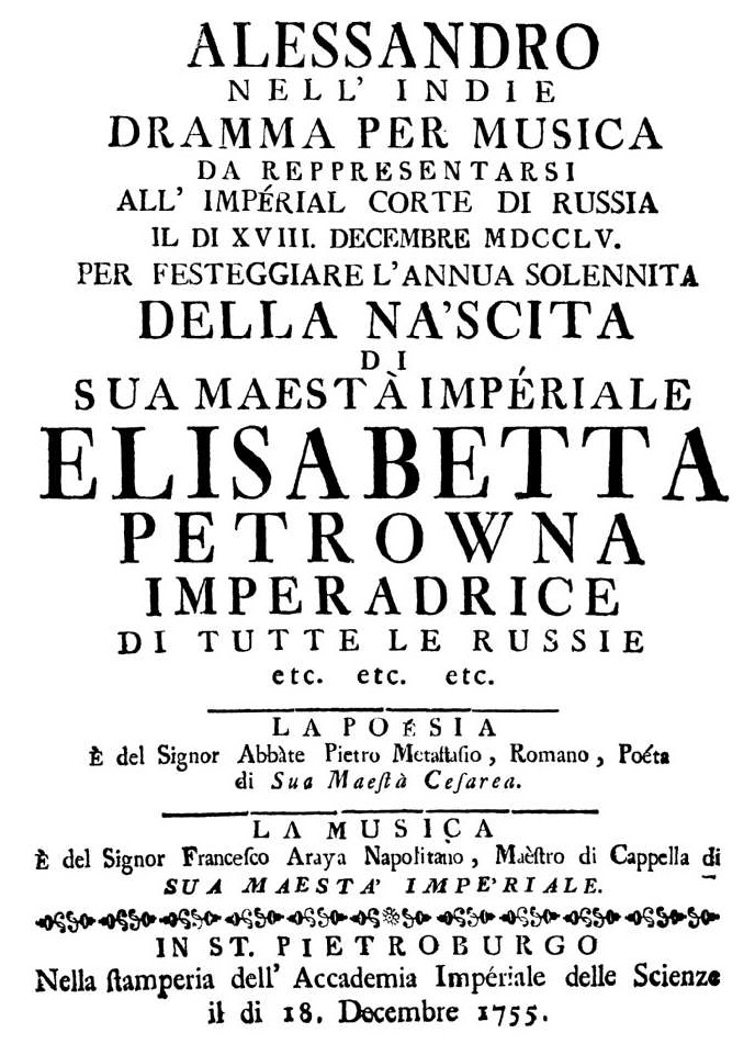 Francesco Araja - Alessandro nell’Indie - titlepage of the libretto - St. Petersburg 1755